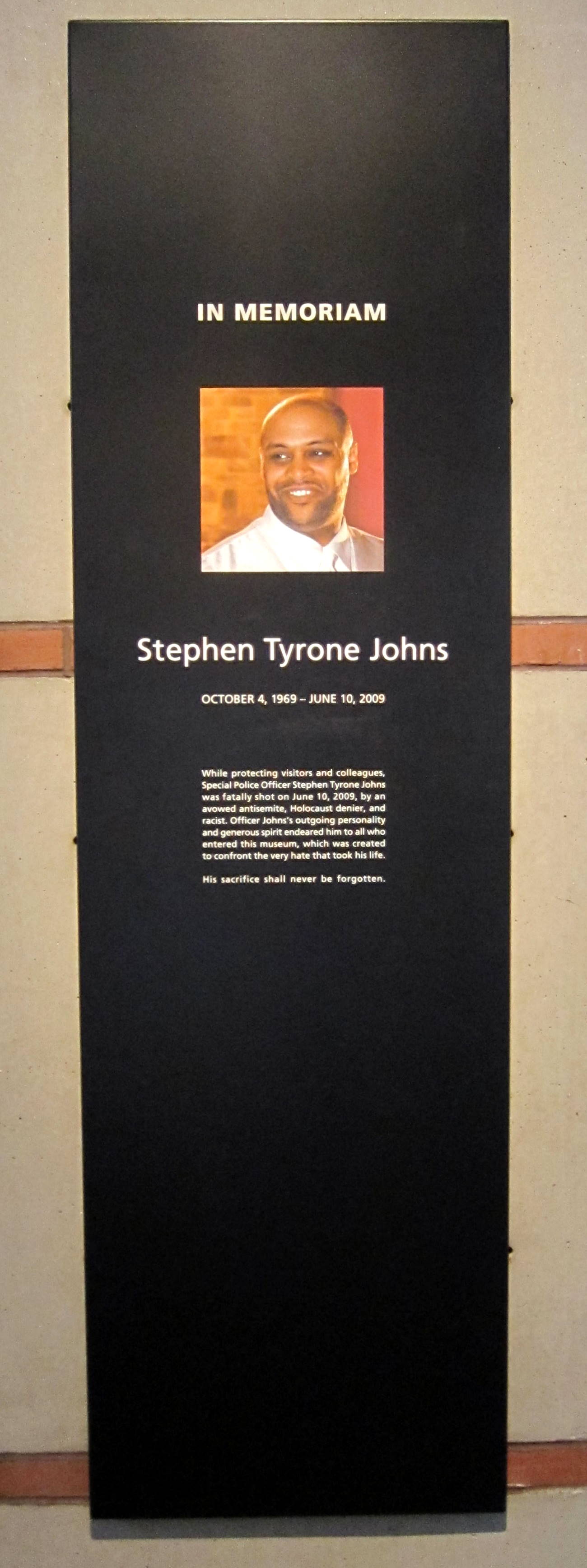 A sign honoring Stephen Tyrone Johns, the Special Police Officer shot and killed during the United States Holocaust Memorial Museum shooting in June 2009, located in the museum's lobby, near the National Mall in Washington, D.C.